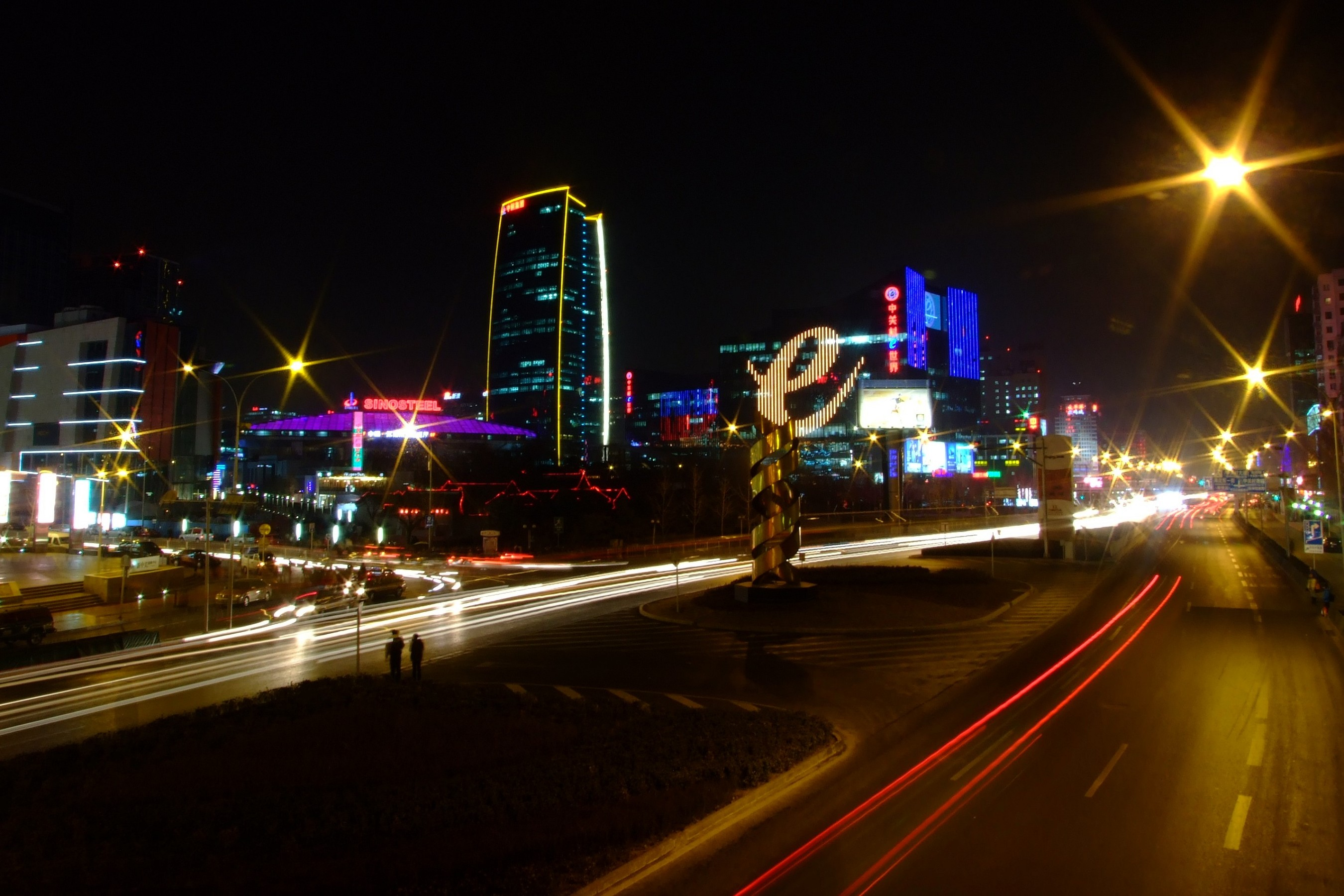 Zhongguancun，Haidian District, Beijing.